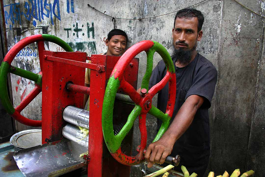 Sugarcane juice vendors, Dhaka.